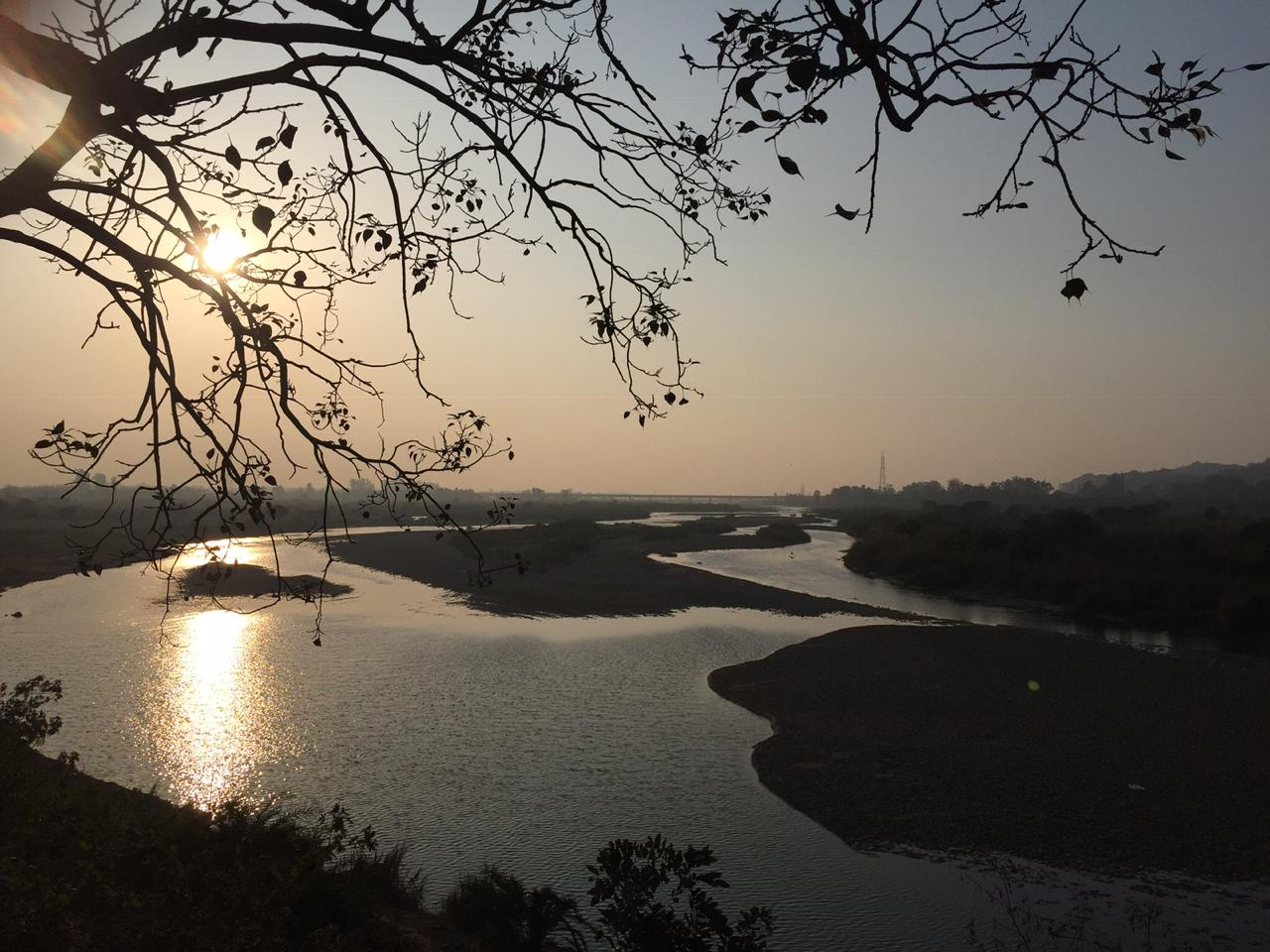 Ropar Wetland Credit To Rudhrah Gourav